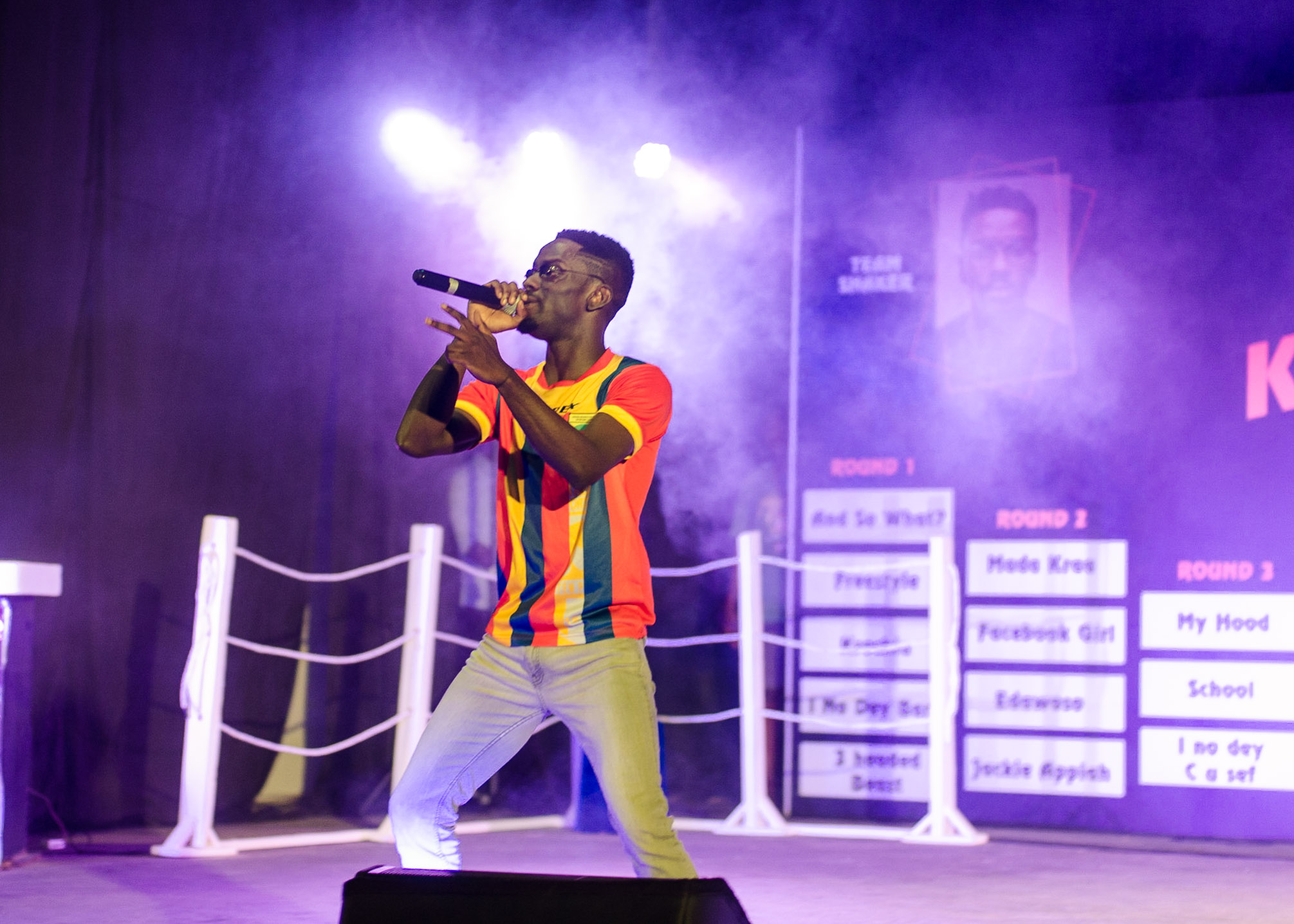 Shaker performing at the Alliance Francais during a concert.